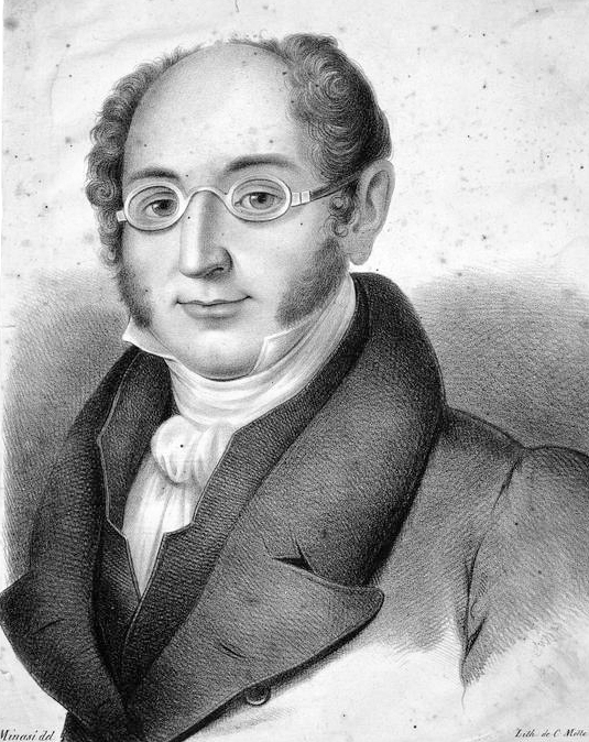 English violinist, conductor and composer Franz Cramer (1772-1848) by Charles Motte (1785-1836) after James Anthony Minasi (1776-1865).